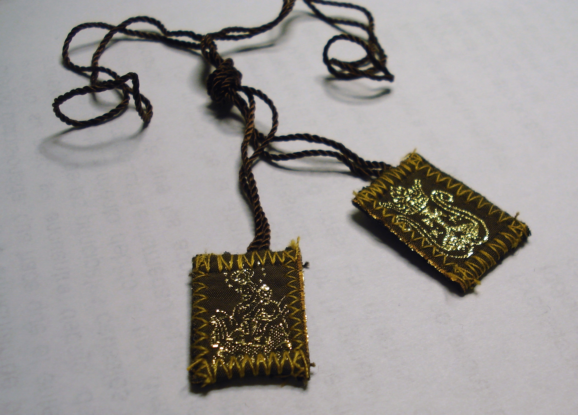 this is my own work, I took the picture at home Sarah sofía 02:49, 25 April 2007 (UTC)